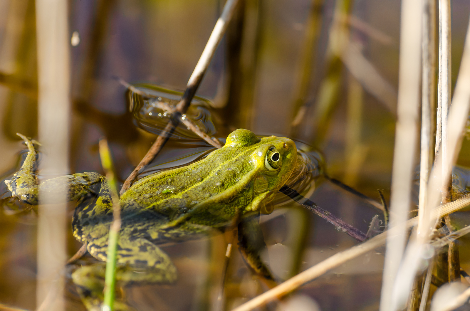 Pool frog